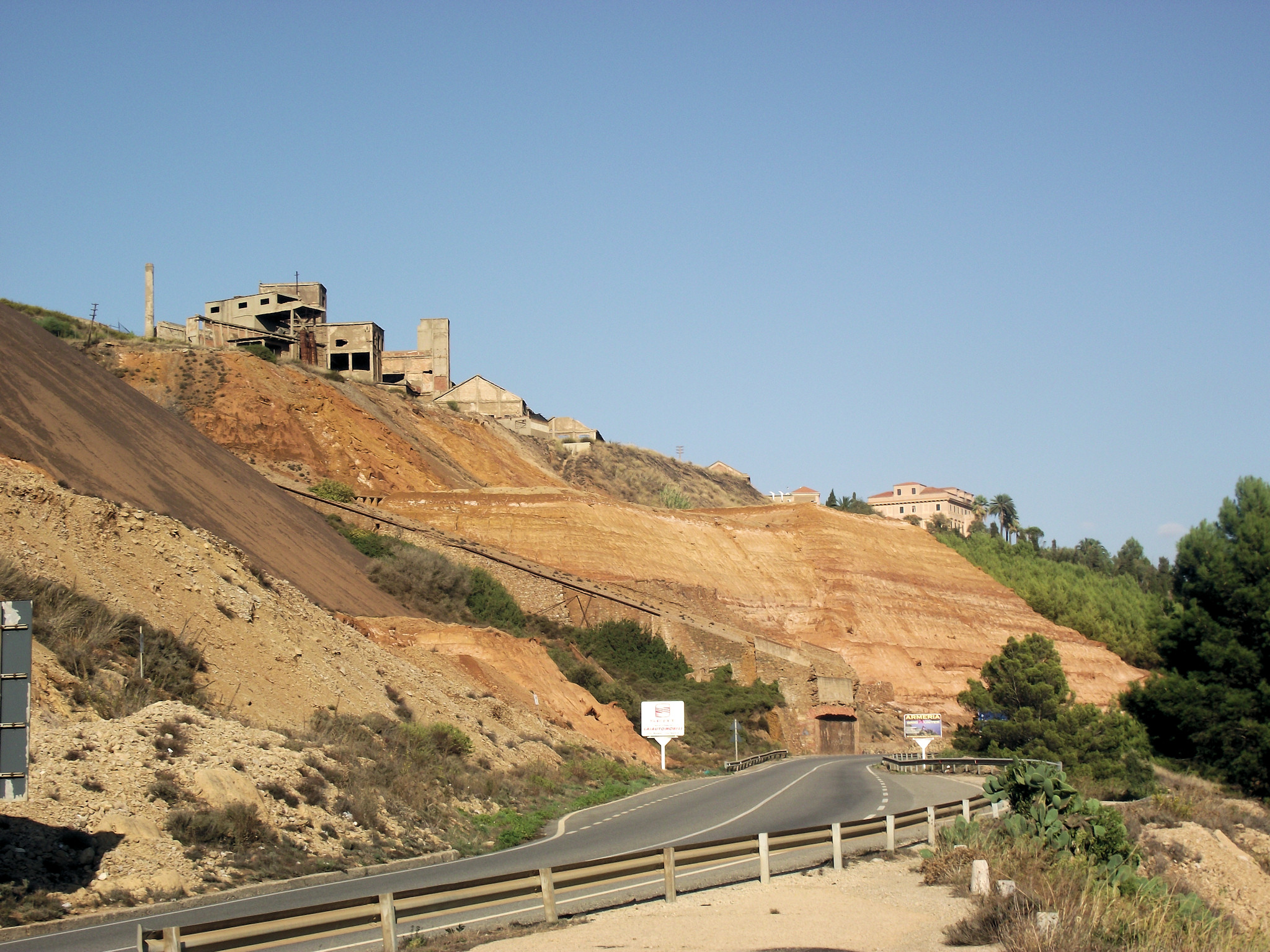 The ruins of the inclined plane at Monteponi, in Iglesias, Sardinia, Italy. The minerals mined from the pits went downstream with this structure, reaching other working facilities and the two railway stations of this mining hamlet.